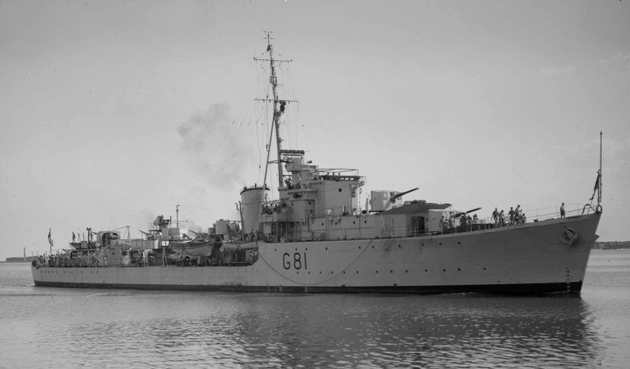 HMAS Quiberon (G81)